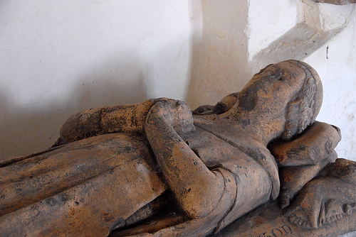 Tomb of William de Harrington, former Rector of Harpswell, Lincs.